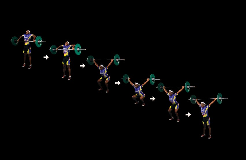 olympic weightlifting